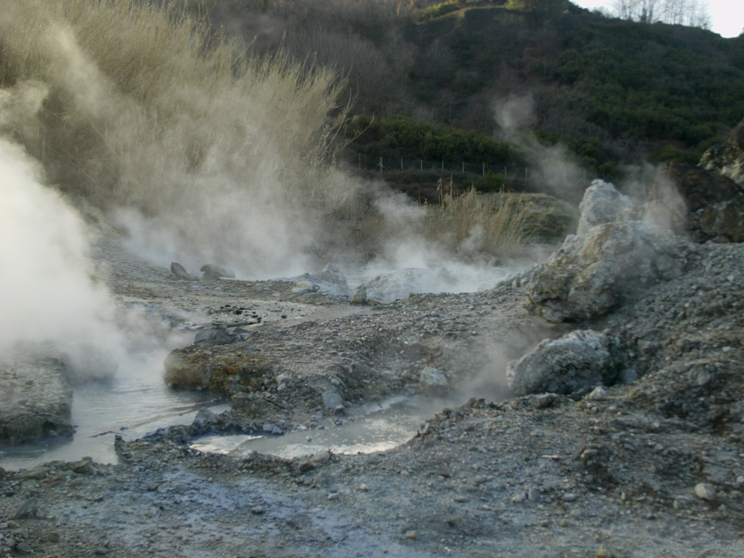 Sasso Pisano